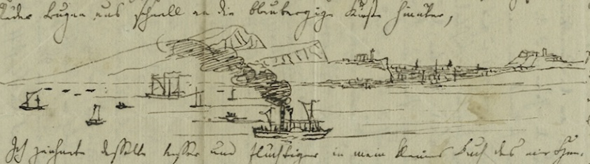 Sketch of a scene by Felix Mendelssohn found in his letter of August 1, 1829 to his sister Fanny (original in the Music Division of the New York Public Library for the Performing Arts)